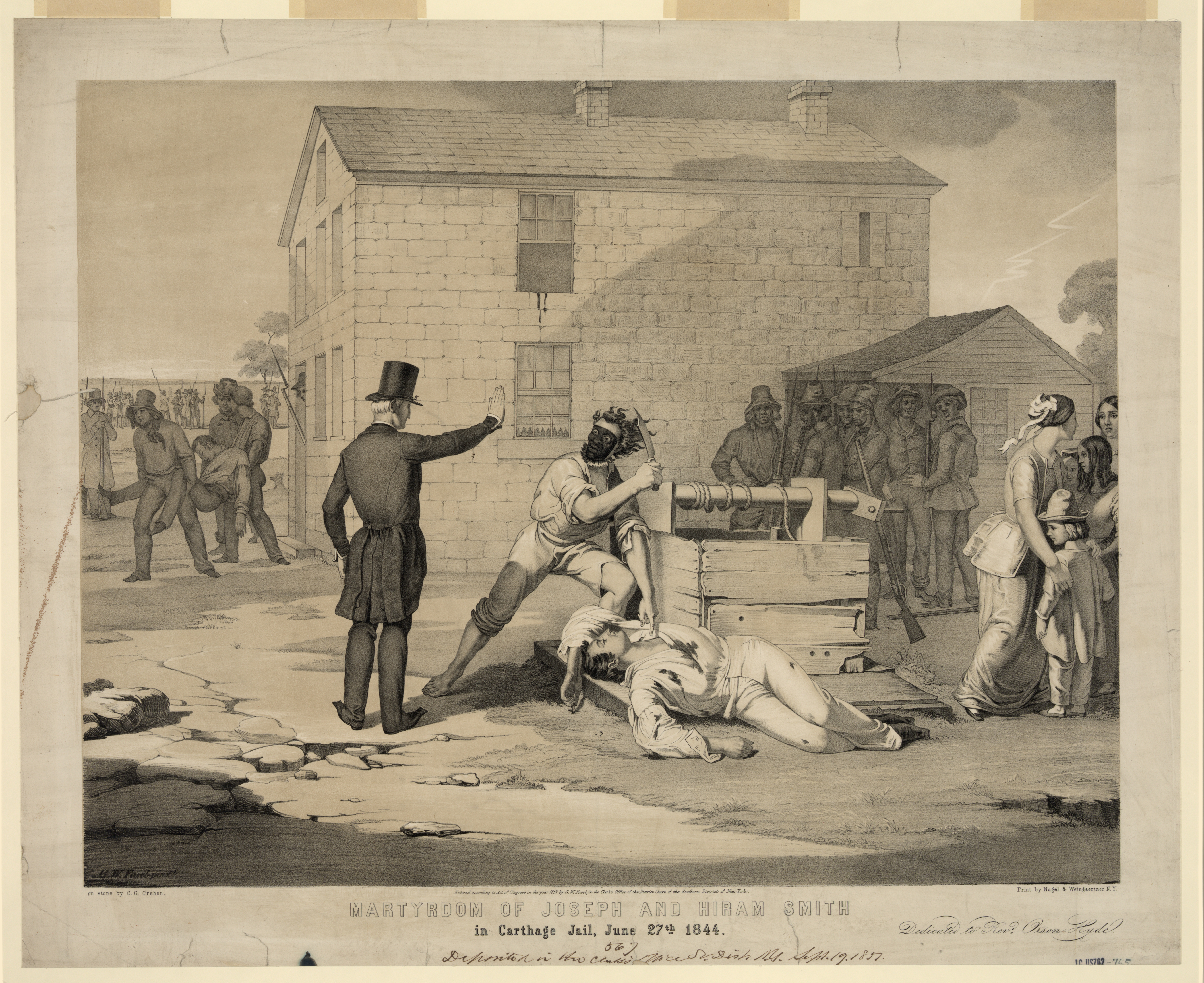 Martyrdom of Joseph and Hiram Smith in Carthage jail, June 27th, 1844 G.W. Fasel pinxit [e.g. painted it] ; on stone [e.g. turned into a lithograph] by C.G. Crehen ; print. by Nagel & Weingaertner, N.Y. Dedicated to the Reverend Orson Hyde Note: This is a slightly unusual lithograph. Basically, it's a black and white lithograph with a second yellow-brown layer on top of it, giving it a bit of an extra tonal range, because the yellow can be a lot lighter than the black. I think these should be about the right colours, though this type of lithograph is unusual enough that I've only come across one or two before. To see the two layers, look at the upper right, where you can see a slight mismatch between the layers that makes them very clear.